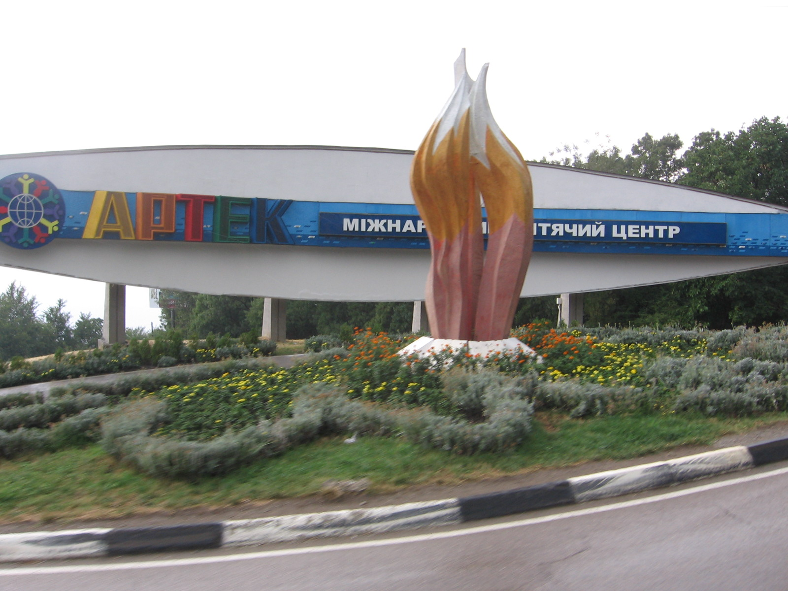 Construction by a backroad to Artek, international children center in Ukraine. Picture taken by Cmapm through window of 52 Simferopol — Alushta — Yalta trolleybus.